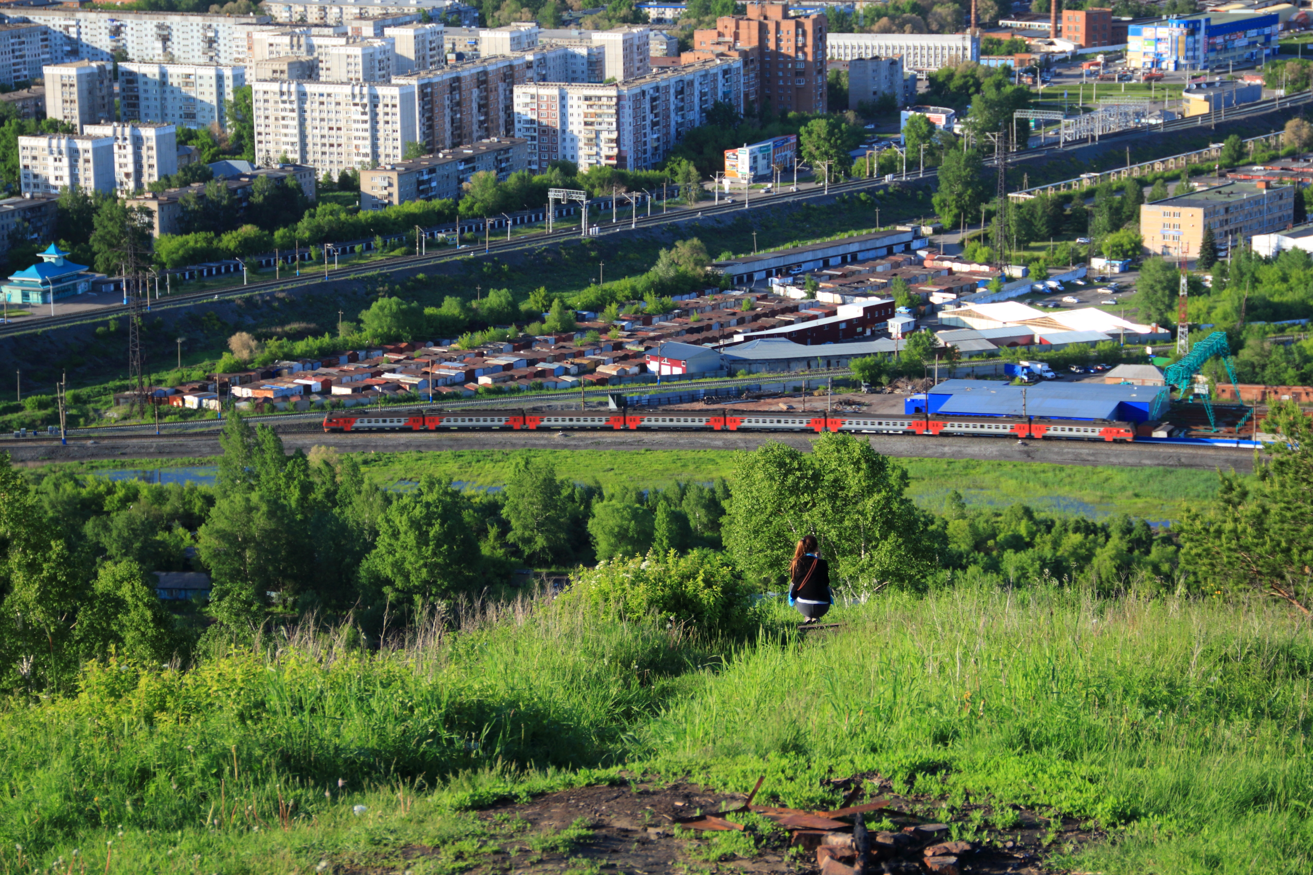 Панорама Новокузнецка с горы Соколуха. Виден электропоезд ЭР-2, идущий со станции Мундыбаш на станцию Новокузнецк